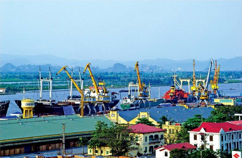 07-HAIPHONG_PORT.jpg